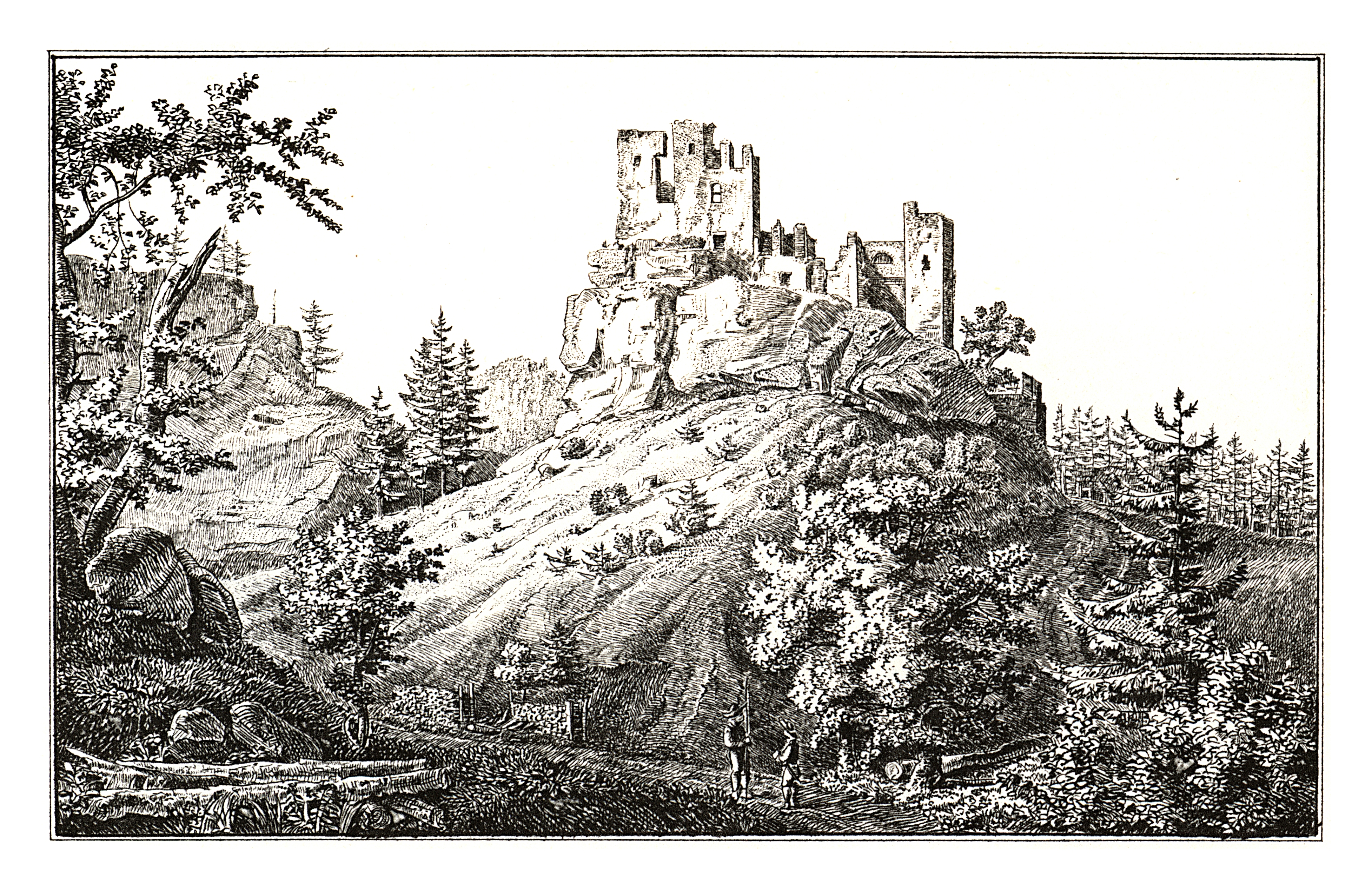 J. F. Kaiser - lithographirte Ansichten der Steyermärkischen Städte, Märkte und Schlösser, Graz 1824-1833 Joseph Franz Kaiser (1786–1859) Alternative names J. F. KaiserDescriptionAustrian printer and editorDate of birth/death 11 March 1786 19 September 1859Location of birth/death Graz (Styria) GrazAuthority control : Q1499963 VIAF: 30629353 ISNI: 0000 0000 3083 0153 LCCN: n87141671 GND: 129880159 NLP: A24960305 WorldCat creator QS:P170,Q1499963 . Scanprojekt Community Projektbudget 2012 This scan or this PDF-file was created within the GLAM-project Bookscanning, supported by Wikimedia Germany and Wikimedia Austria as a part of the community-project to capture books, documents and pictures which are not eligible to copyright or for which the copyright has expired. This document describes or depicts an object which is located in Austria today. Send requests for uncompressed scans to Hubertl. This work is in the public domain in its country of origin and other countries and areas where the copyright term is the author's life plus 100 years or less. You must also include a United States public domain tag to indicate why this work is in the public domain in the United States. This file has been identified as being free of known restrictions under copyright law, including all related and neighboring rights.